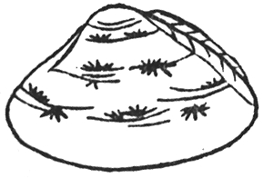 "Watarigai" (車螯, a huge clam) from the Wakan Sansai Zue (和漢三才図会)